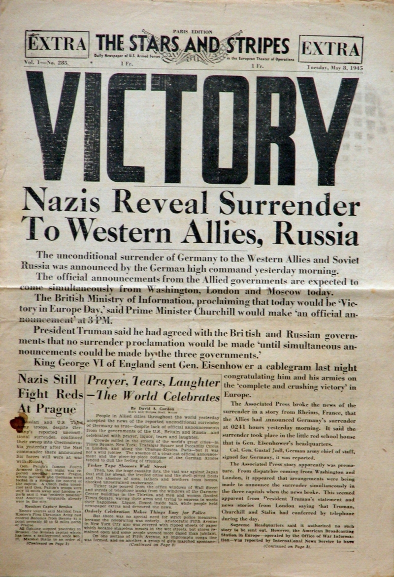 “Stars and Stripes”, issue No 285 from May 8, 1945, Paris Edition, V-E-Day.